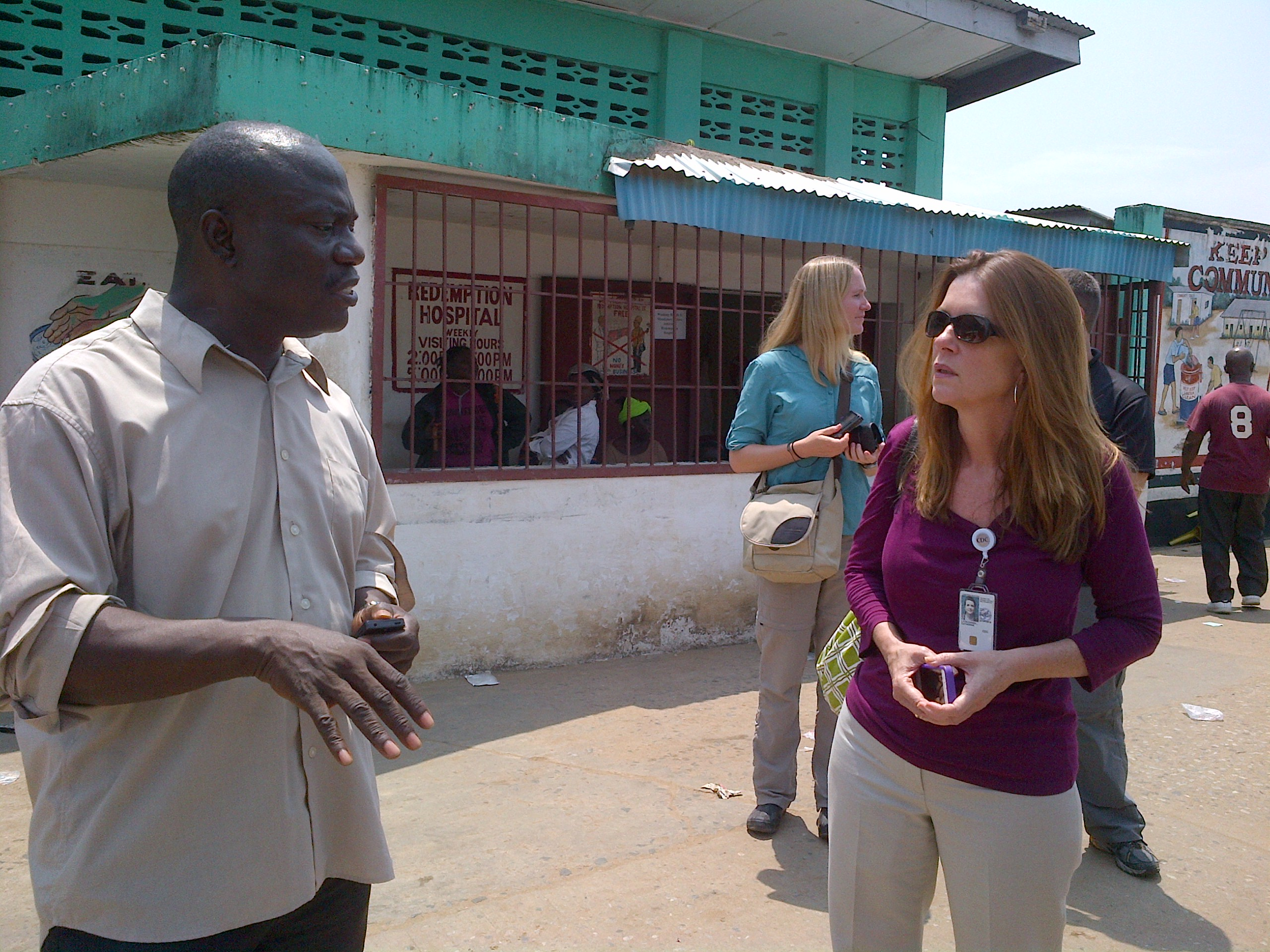 CDC's communication director Dr. Katherine Lyon-Daniel discusses the effects of the Ebola epidemic on Monserrato County with District 16 representative George Fohr. Mr. Fohr was superintending access to Redemption Hospital while burial teams removed recently deceased persons for burial. For more information on Ebola and what CDC is doing, please visit